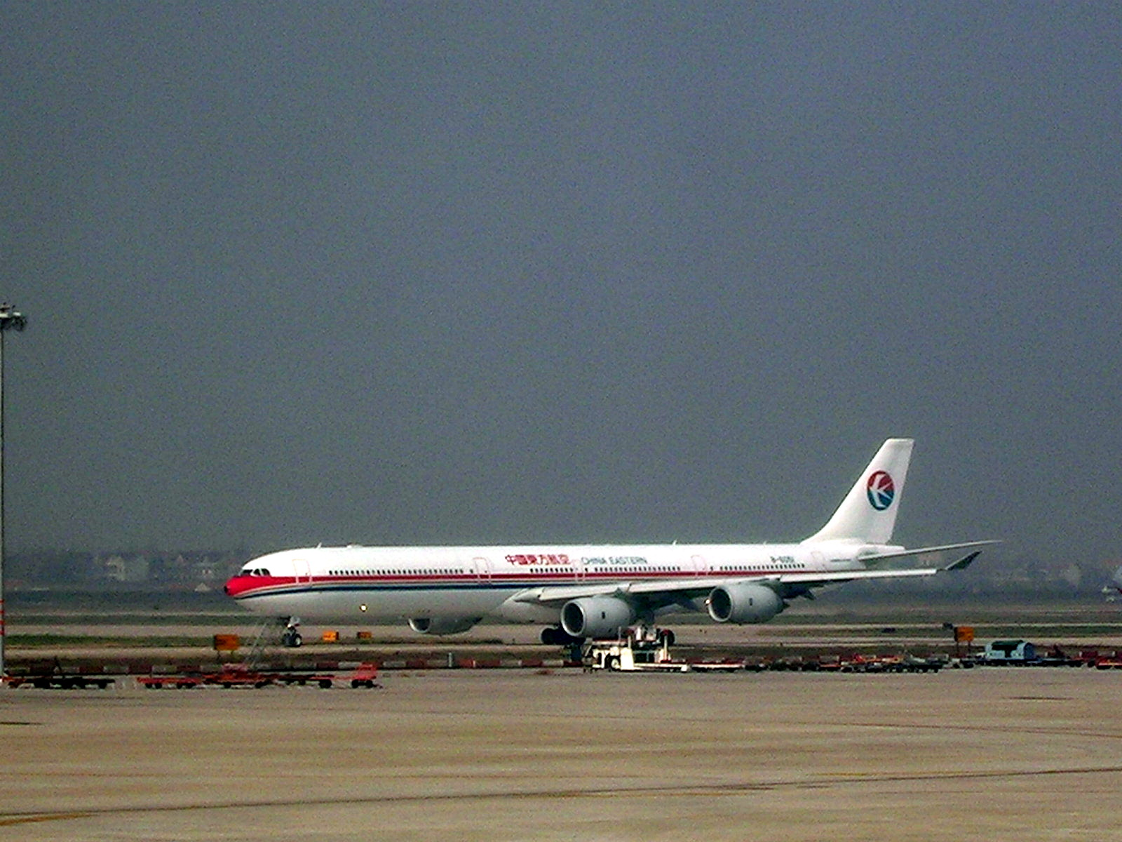 China Eastern Airbus A340